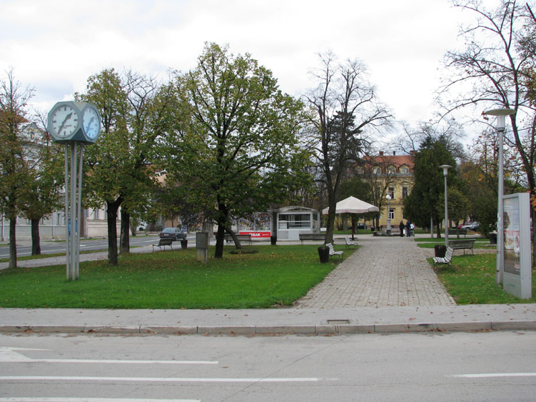 Strossmayer's Sq., Jastrebarsko, Zagreb County, Croatia